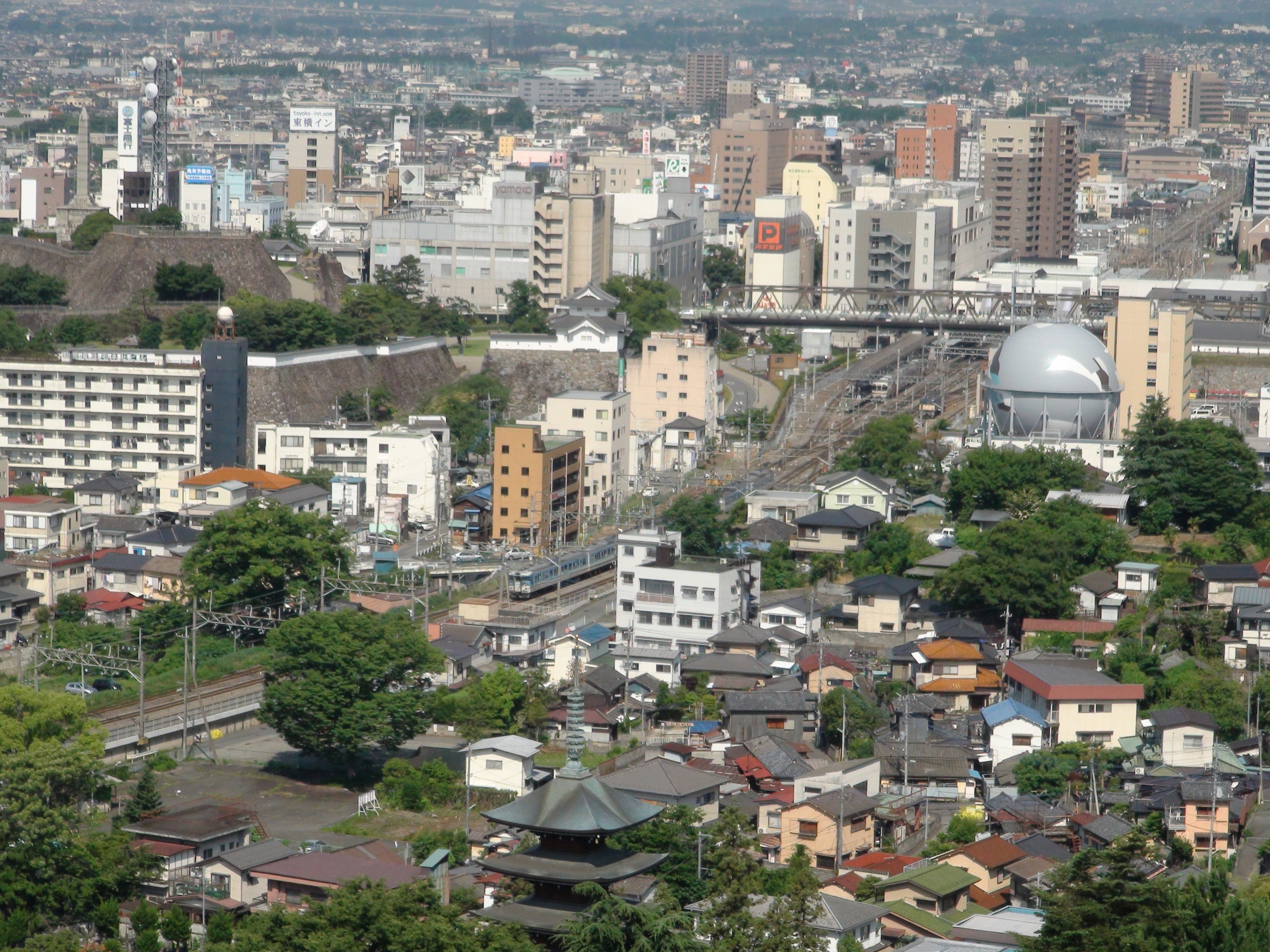 Kofu Castle and Kofu Station